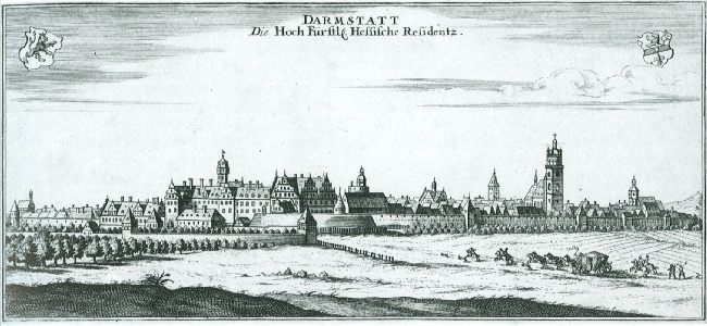 Darmstadt in 1626. The note above reads, in translation "Darmstadt - the residence (town) of the High Prince/Ruler of Hesse".